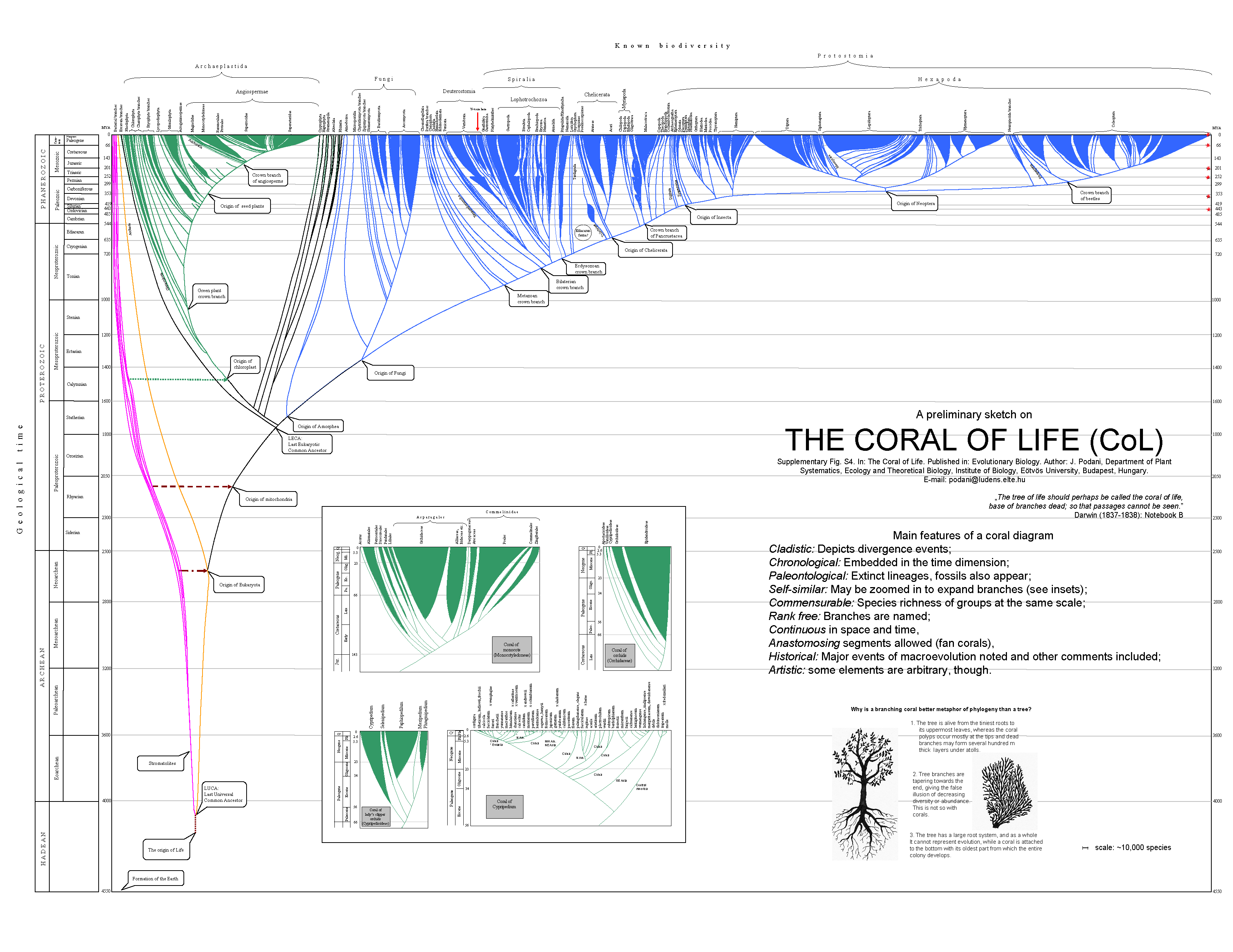 This is the first version of a diagram that depicts the history of life in its entirety.